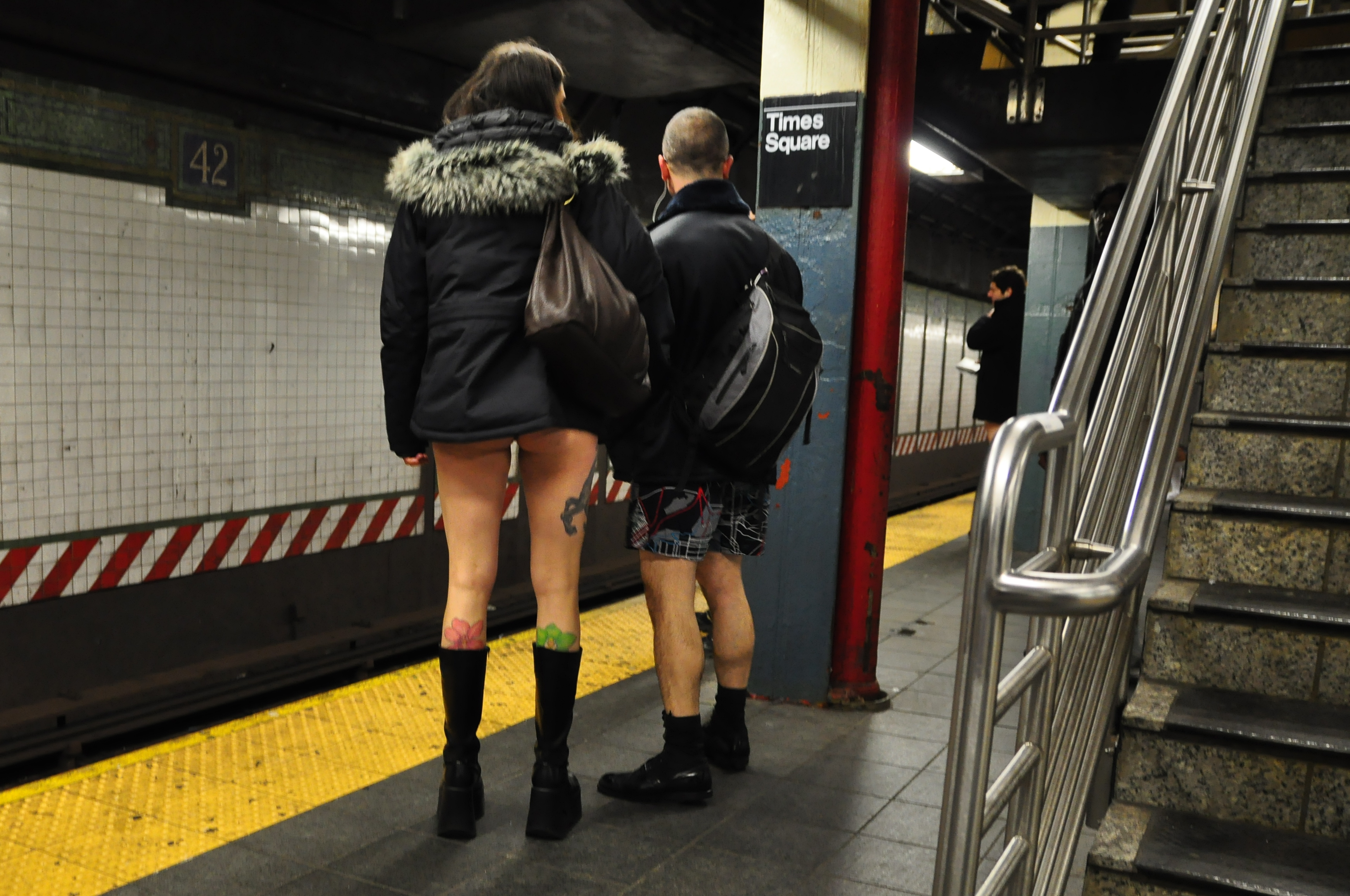 Participants of No Pants Subway ride at Times Square Station, NYC used on the National wire for FoxNews coast-to-coast from NY to LA and everywhere in between! . and here: and here